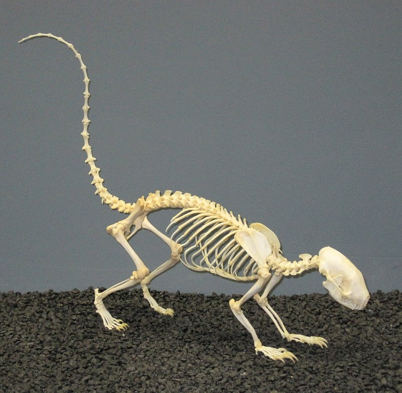 A Striped Skunk Skeleton on Display at The Museum of Osteology, Oklahoma City, Oklahoma.